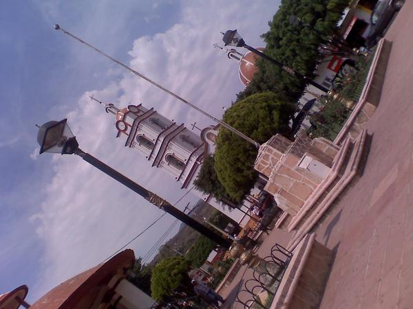 THIS IS A PIC ABOUT QUITUPAN PLAZA